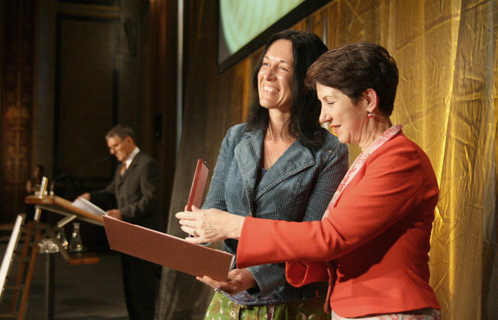 Barbara Prammer and Elisabeth Scharang, 43. Fernsehpreis der Österreichischen Erwachsenenbildung at the Budget Hall of the Austrian Parliament Building in Vienna.